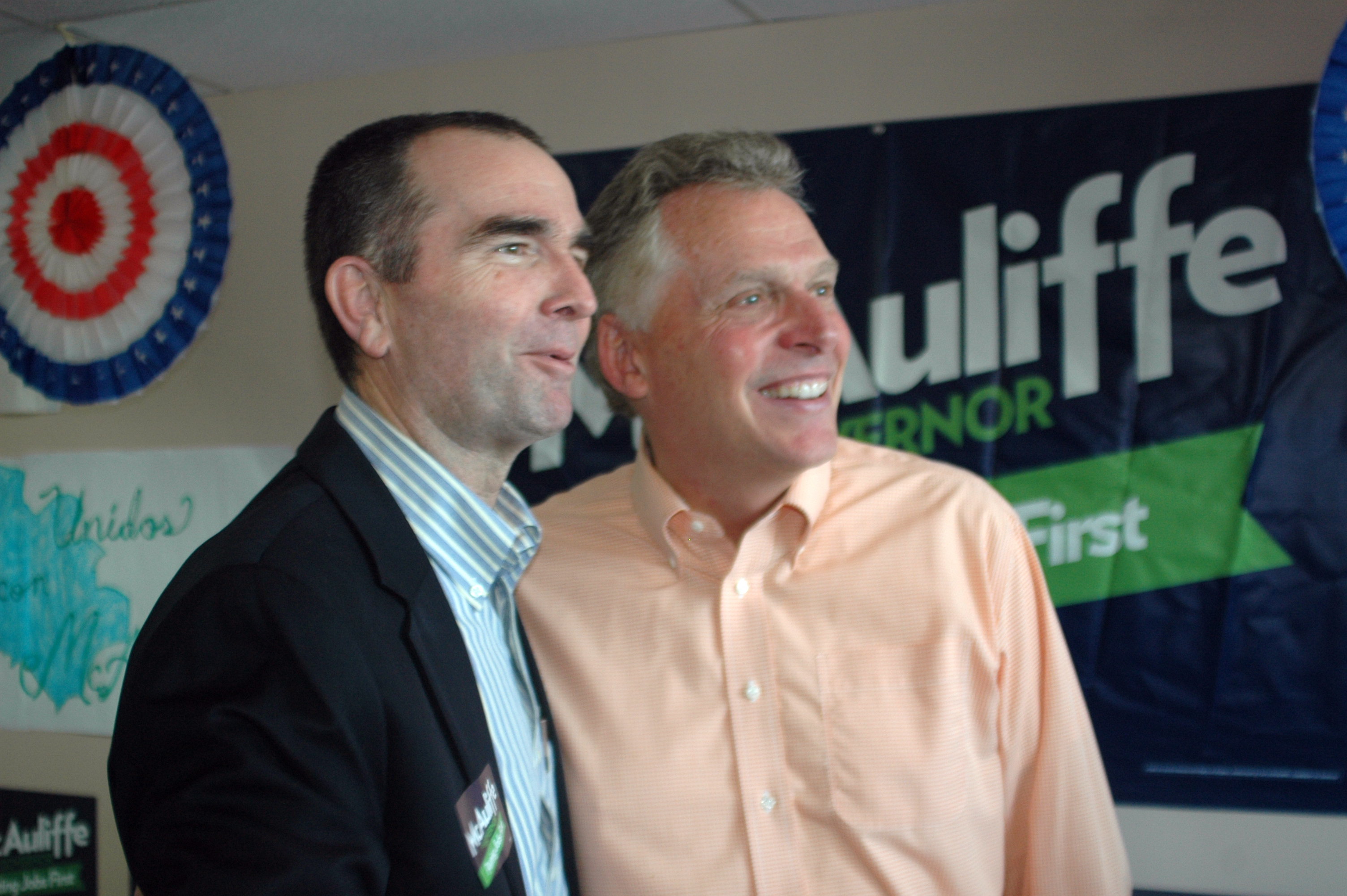 Terry McAuliffe and Ralph Northam as candidates for Governor and Lt Governor